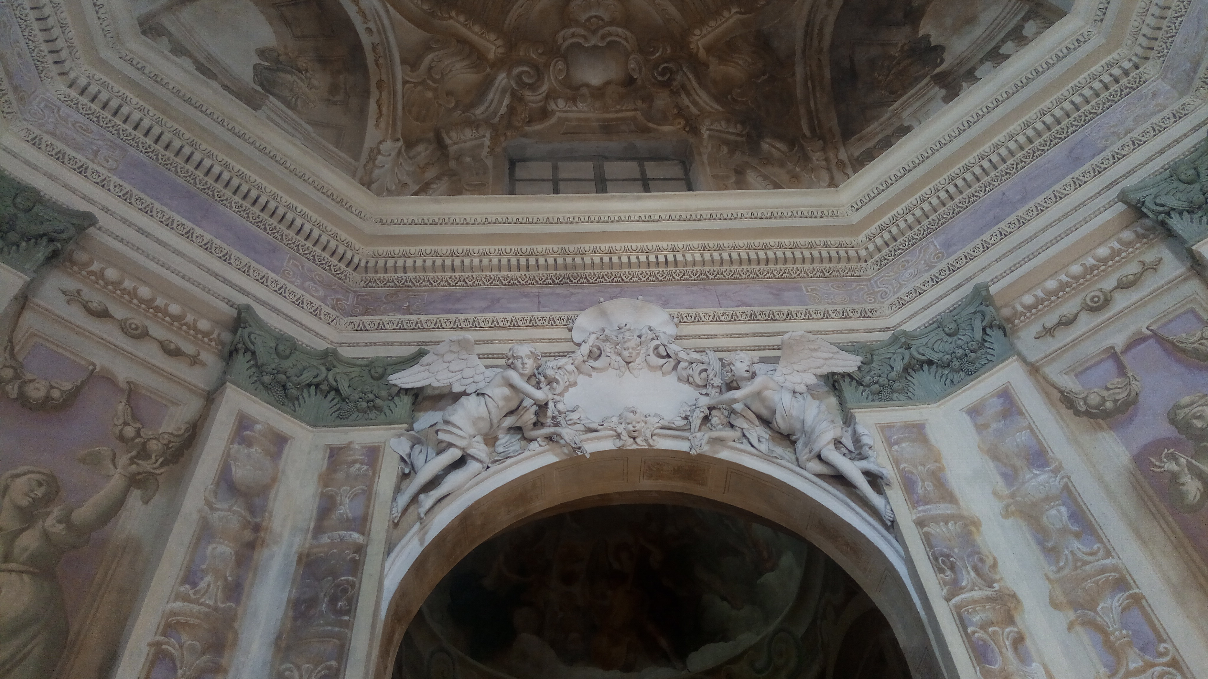 Serraglio Church